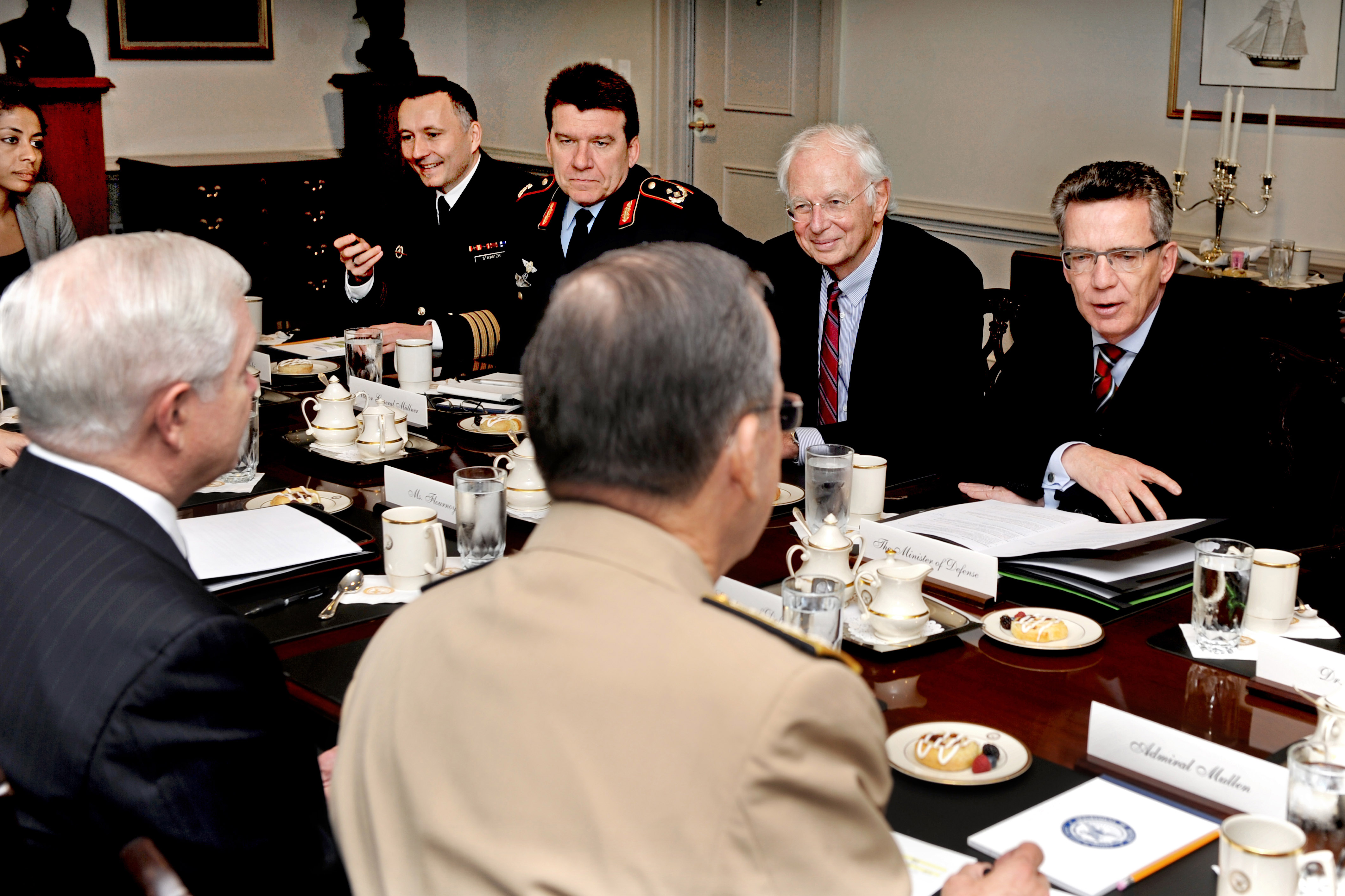 Secretary of Defense Robert M. Gates (left) and Chairman of the Joint Chiefs of Staff Adm. Mike Mullen host a Pentagon meeting with a German defense delegation led by Minister of Defense Thomas de Maiziere (right) on April 28, 2011. Other attendees are German Ambassador to the United States Klaus Scharioth (2nd from right), Assistant for Politico-military Affairs and Arms Control Maj. Gen. Karl Mullner and Executive Officer to the Minister of Defense German Navy Capt. Carsten Stawitzki (5th from right).